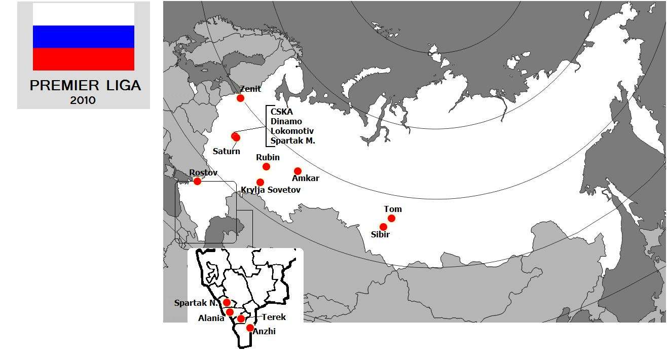 2010 Russian Premier League teams geographic distribution.